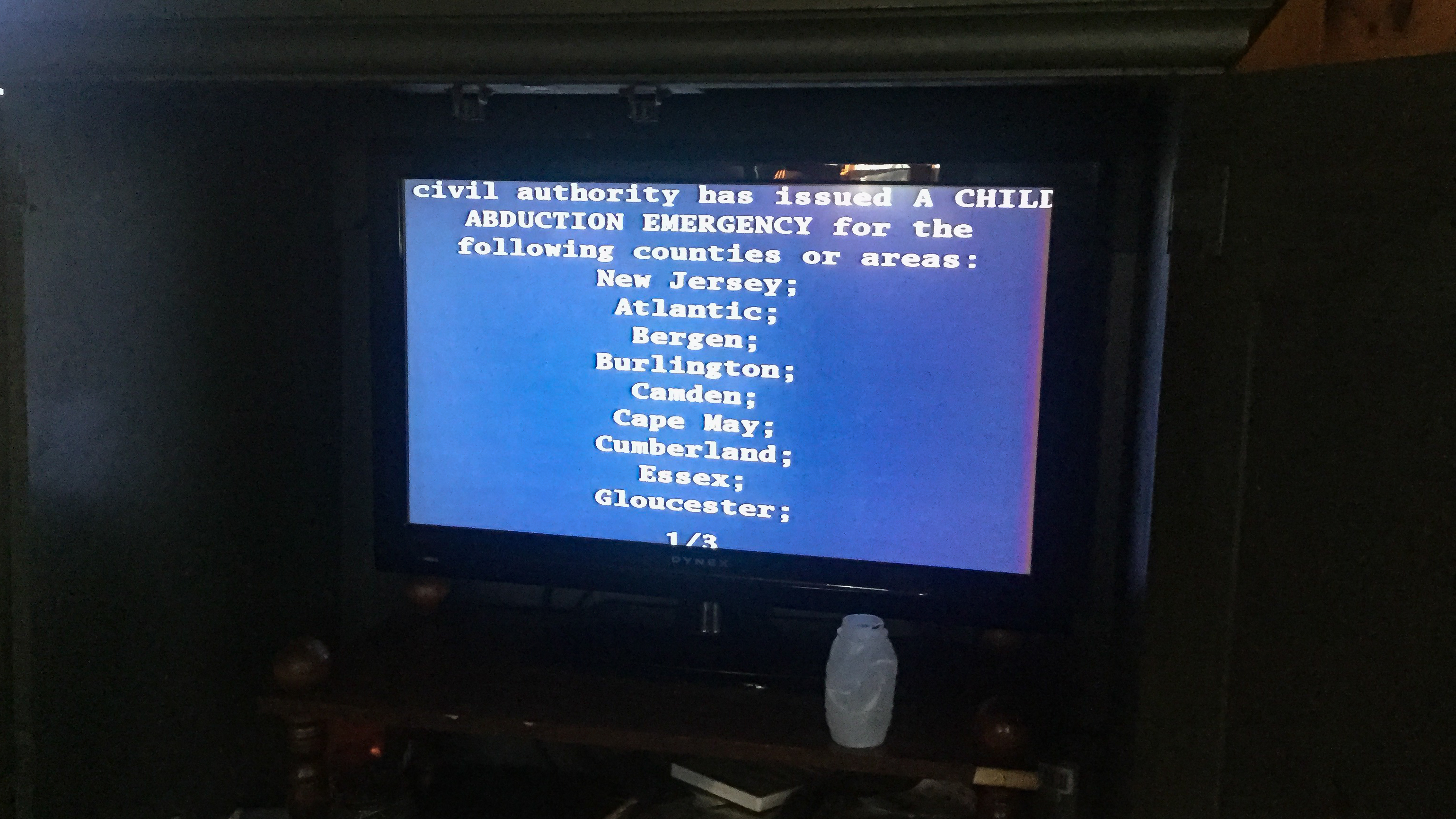 A child kidnapping emergency on a Dynex TV on March 15, 2020 at approximately 3:46 PM at New Jersey.